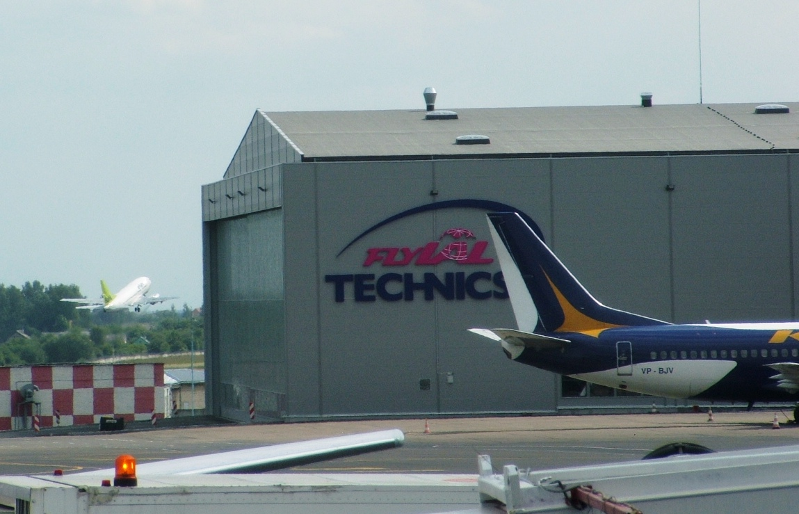 FlyLAL technics hangar at Vilnius airport.